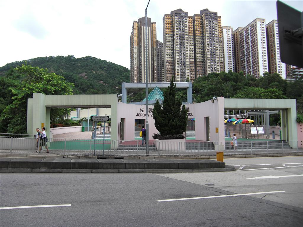 A view taken from Choi Ha Raod towards the east. The main entrance of Jordan Valley Swimming Pool is seen. Lok Nga Court stands in the background.